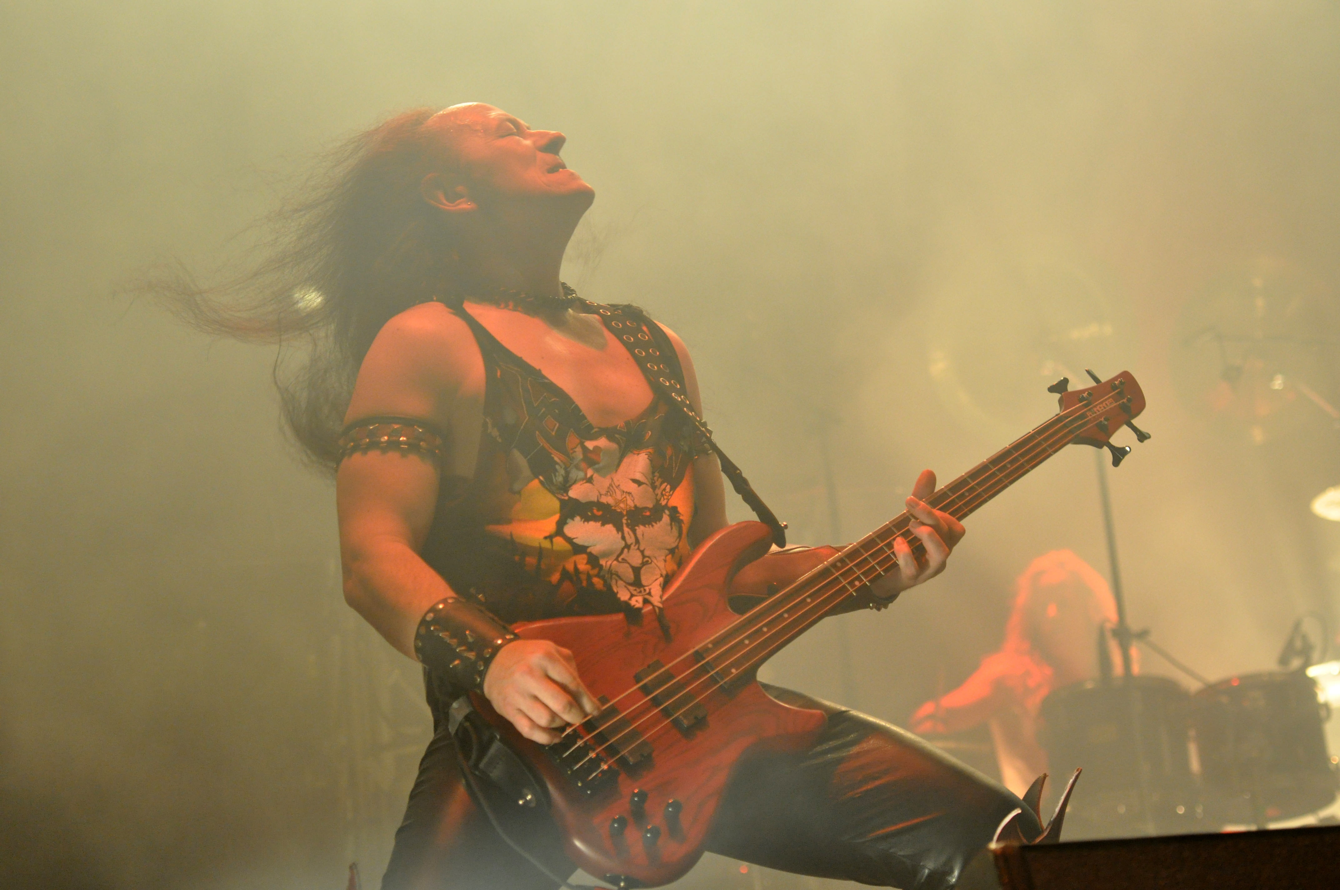 Venom at Party.San Metal Open Air 2013